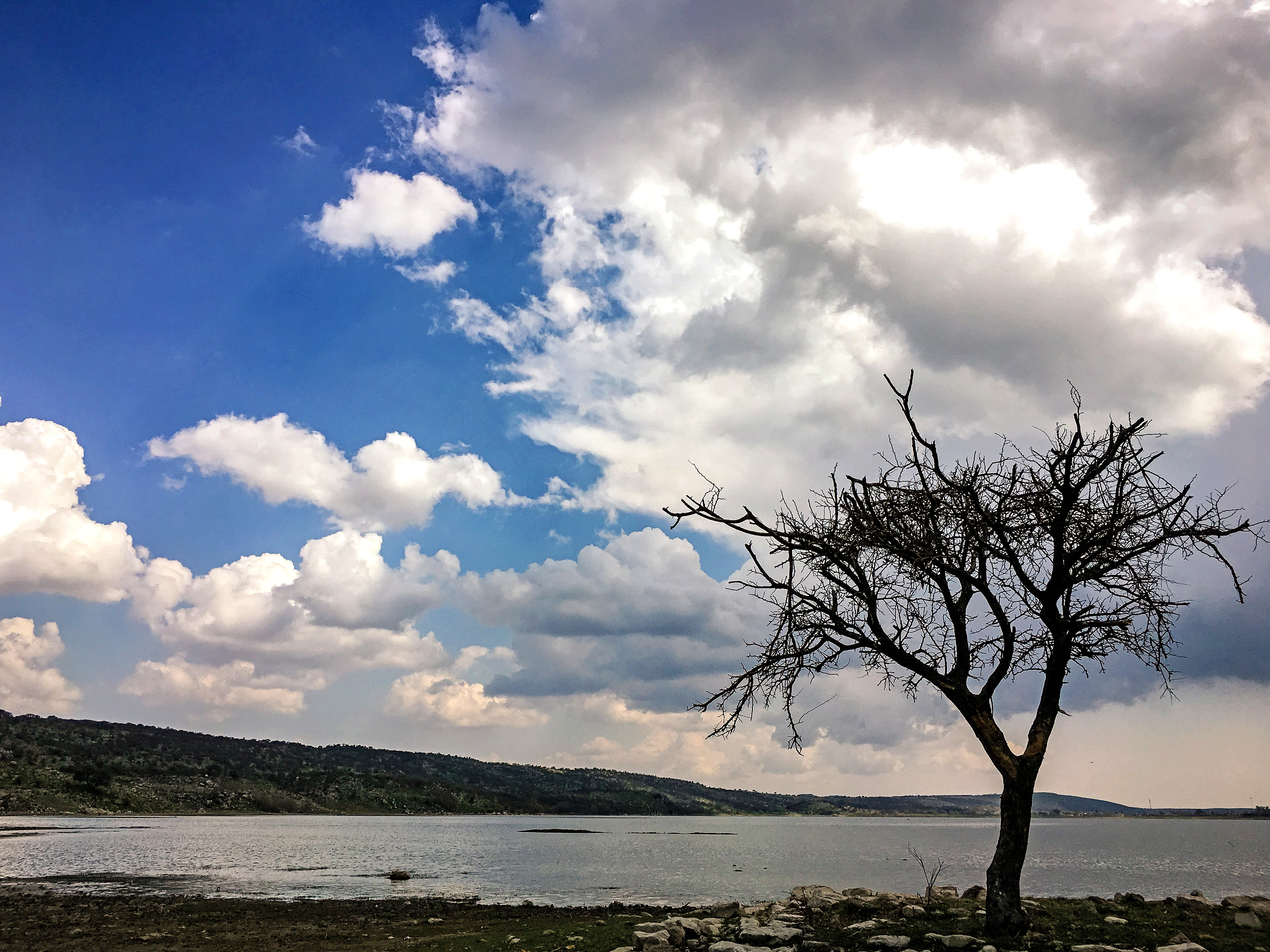 Khabeki Lake, Soon Valley, Khushab